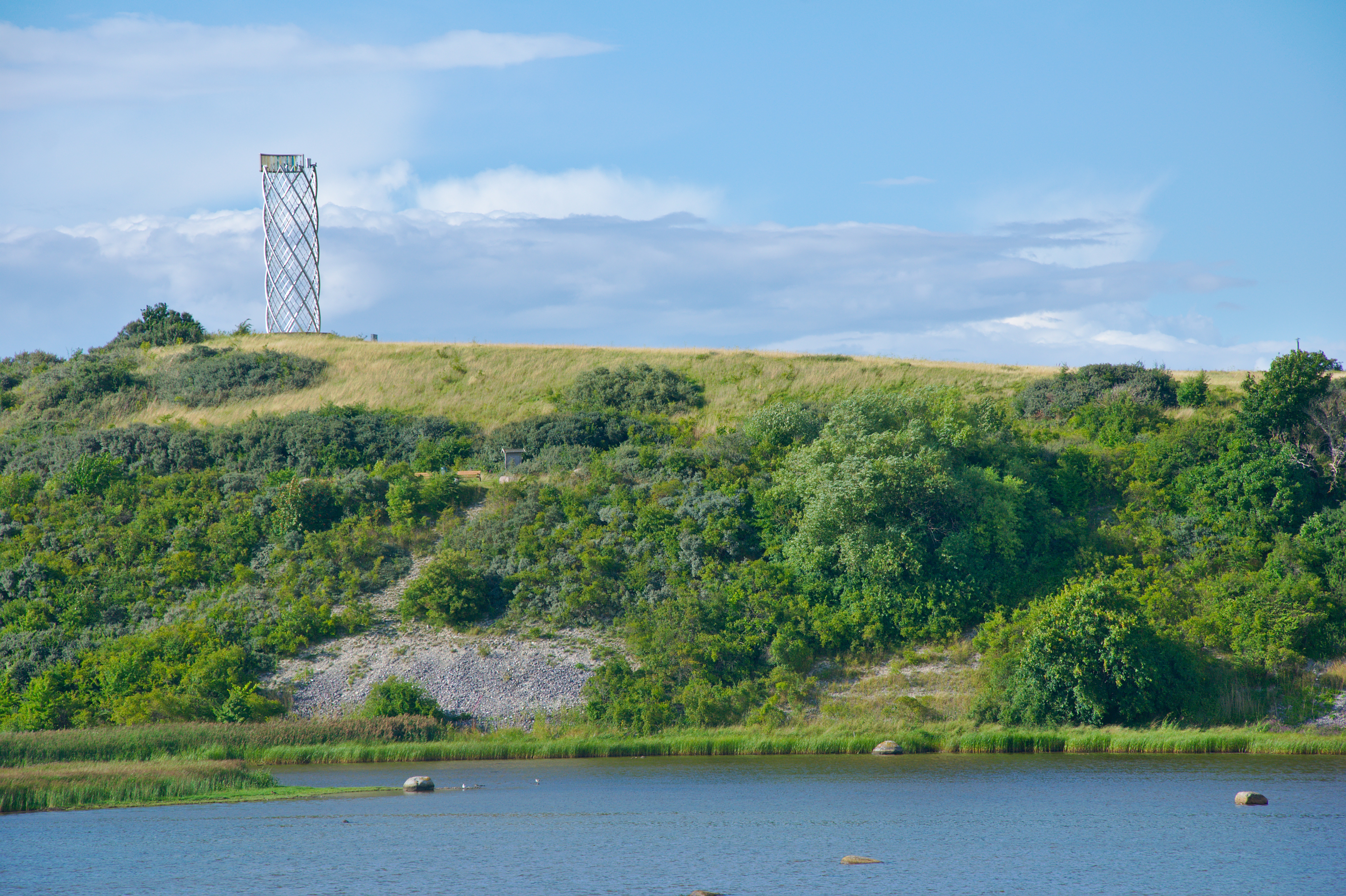 The movement meter for Lernacken - The Tower: Sculpture by Olafur Eliasson